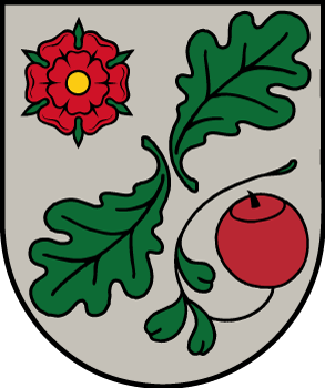 Coat of arms of Pārgauja Municipality, Latvia.